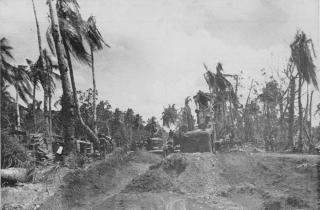 Seabees build road from Agat Bay to IIIAC front lines on Guam